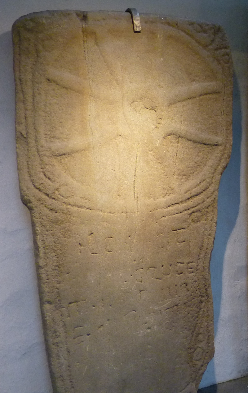 10th or 11th C Cartwheel Cross. Inscription may say 'Ilci made this cross in the name of God most High'. It is from Cwrt Dafydd Farm, south of Margam and is now in the Margam Stones Museum nr Port Talbot.